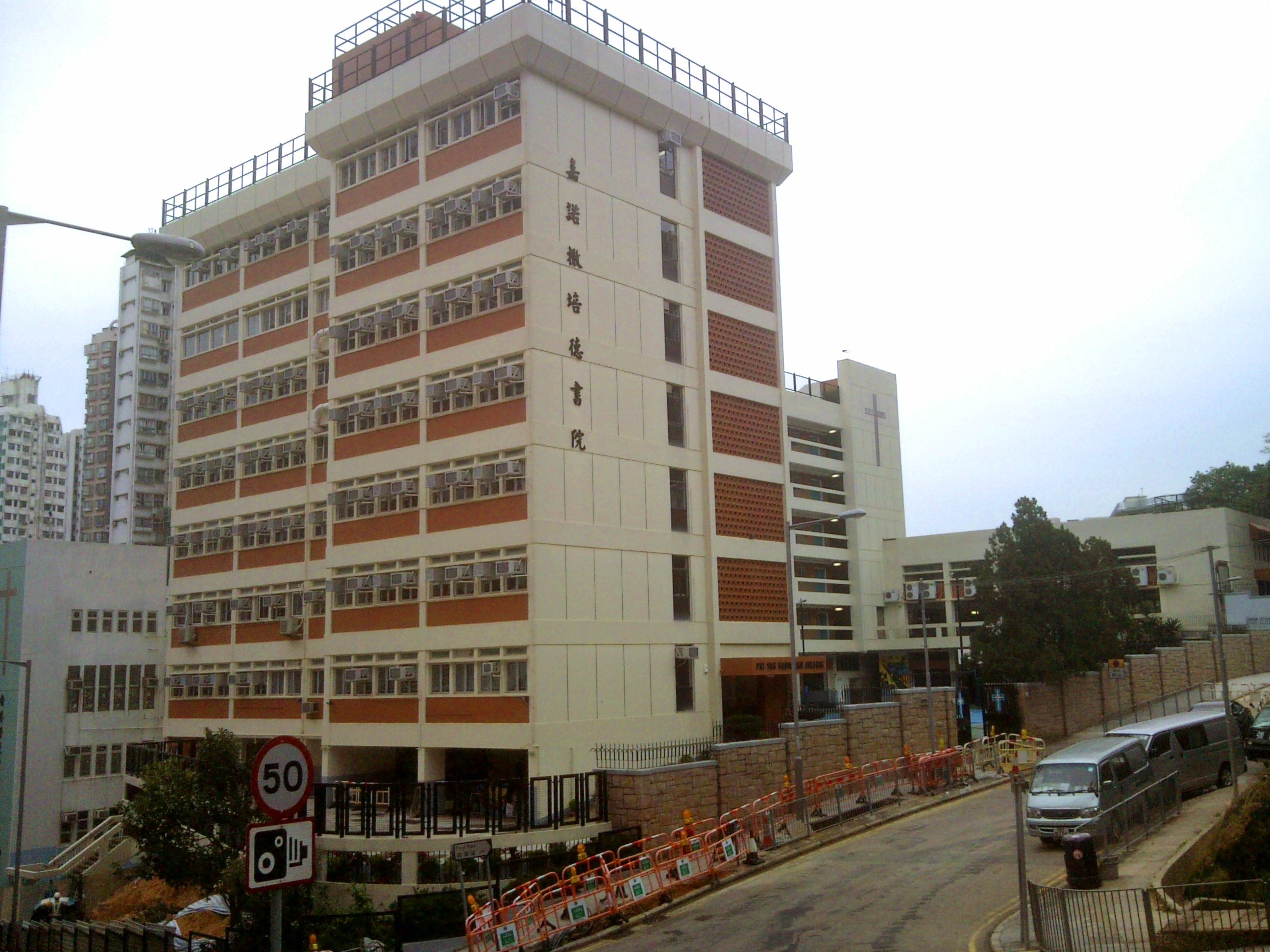 Pui Tak Canossian College